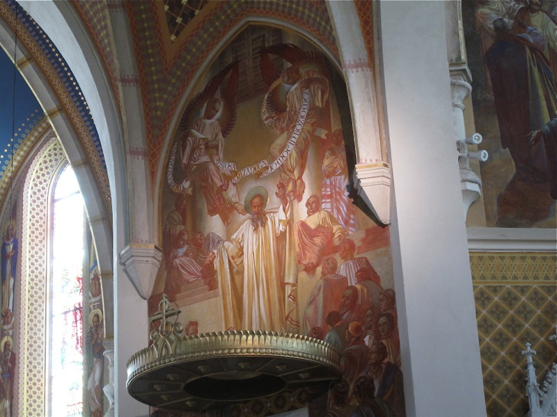 Frescoes by Slavko Pengov in the Church of St Martin, Bled, Slovenia.